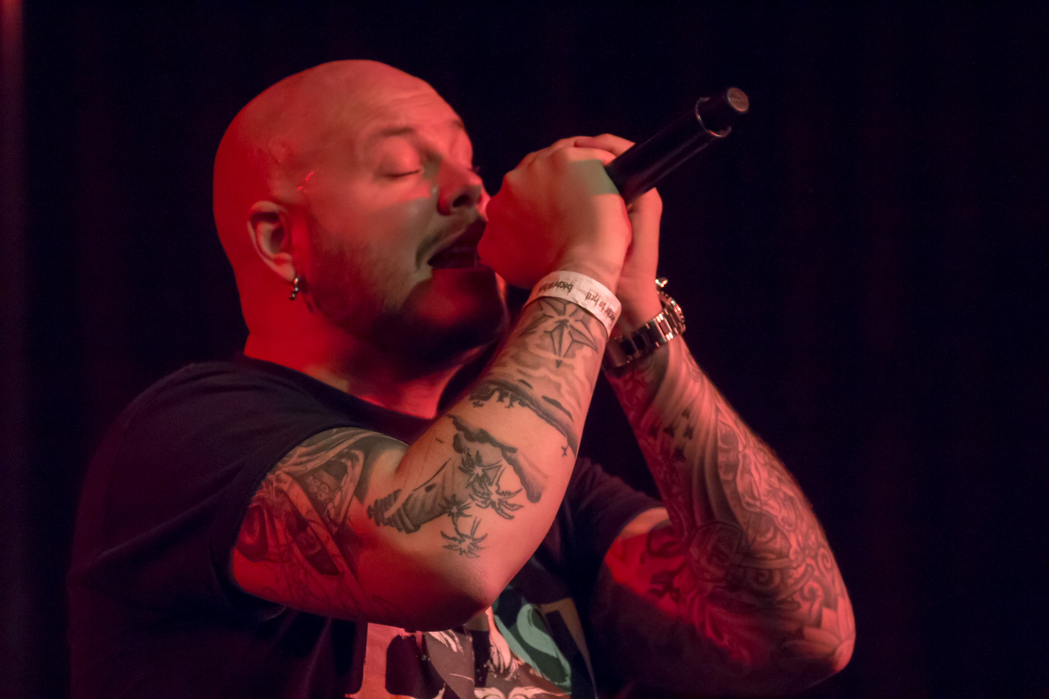 Soilwork on the Barge to Hell, Dec. 2012